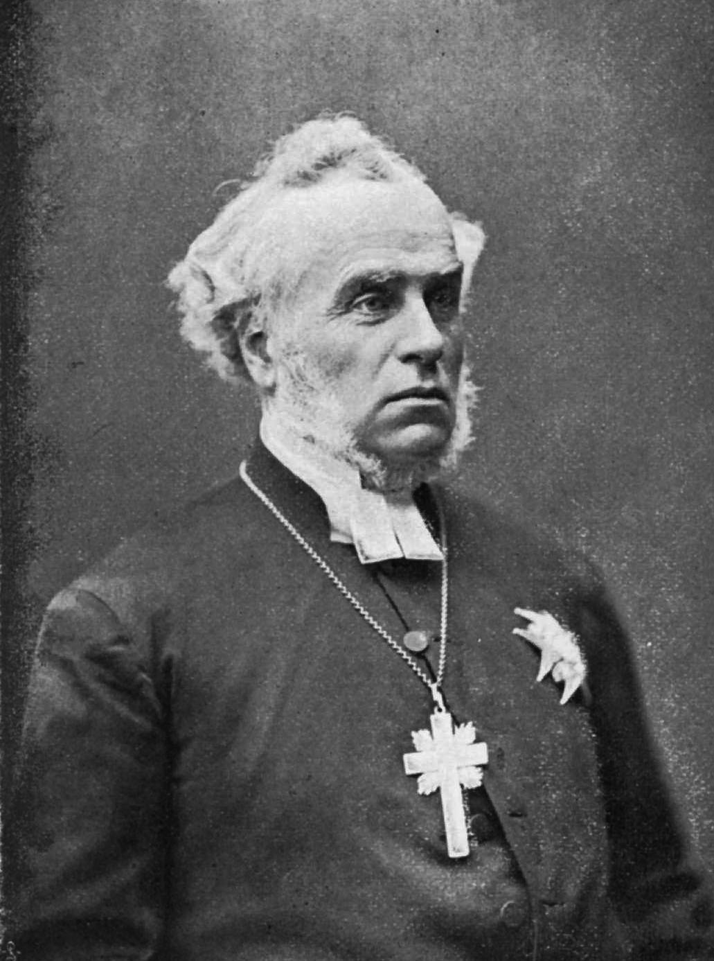 Portrait of swedish arch bishop Anton Niklas Sundberg (1818-1900).